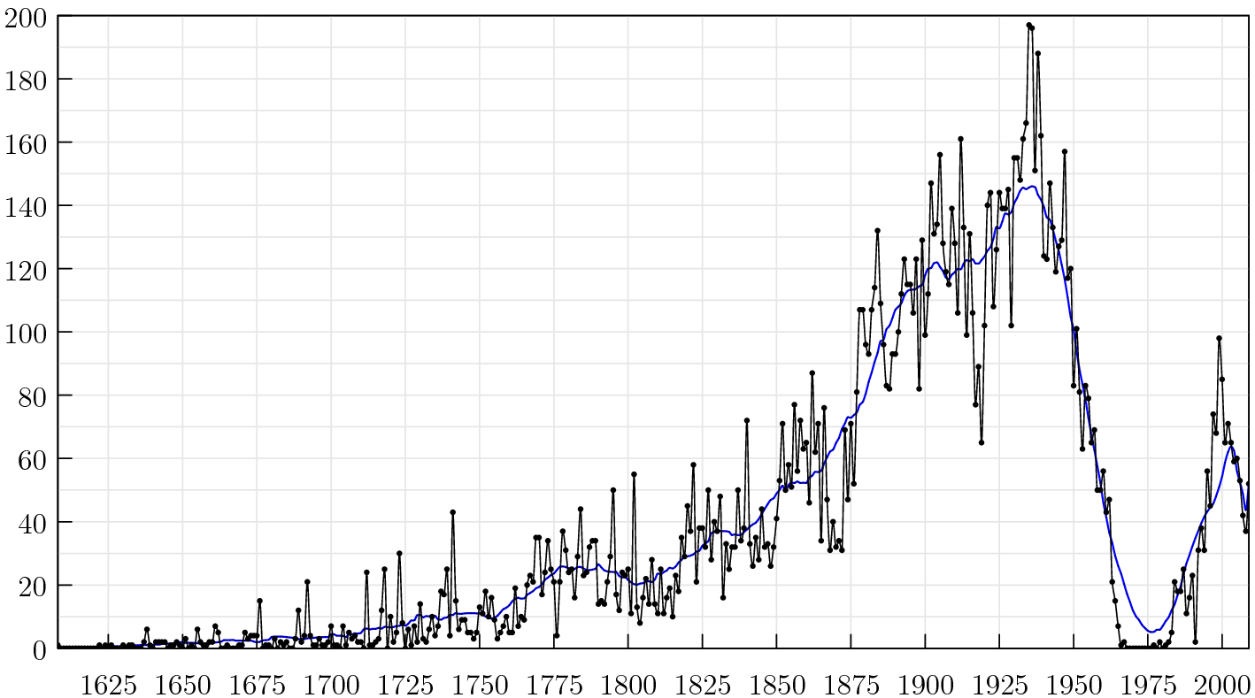 Executions in the United States and the earlier colonies from 1608 to 2009. Data is from the "Espy File" compiled by M. Watt Espy and John Ortiz Smylka and from the U.S. Department of Justice's Bureau of Justice Statistics. Made with asymptote.